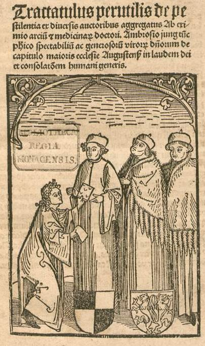 „Tractatus de pestilentia ex diversis auctoribus aggregatus” (Augsburg, 1494) Author: Ambrosius Jung (senior) (1471 Ulm – 1548 Augsburg) was a German doctor & professor